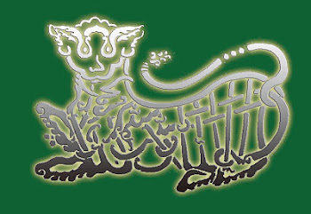 Macan Ali is the Flag of the Sultanate of Cirebon